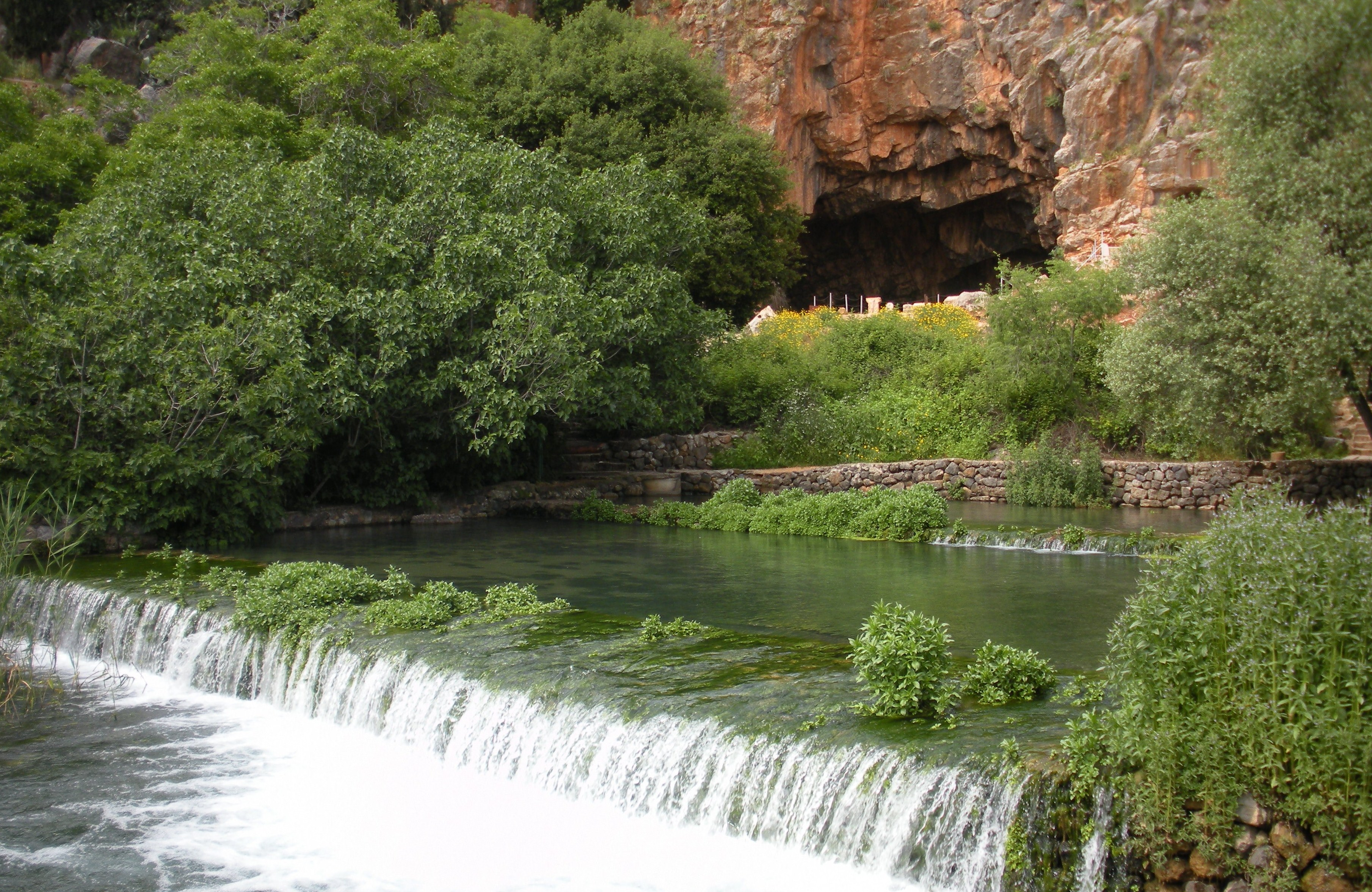 Jordan